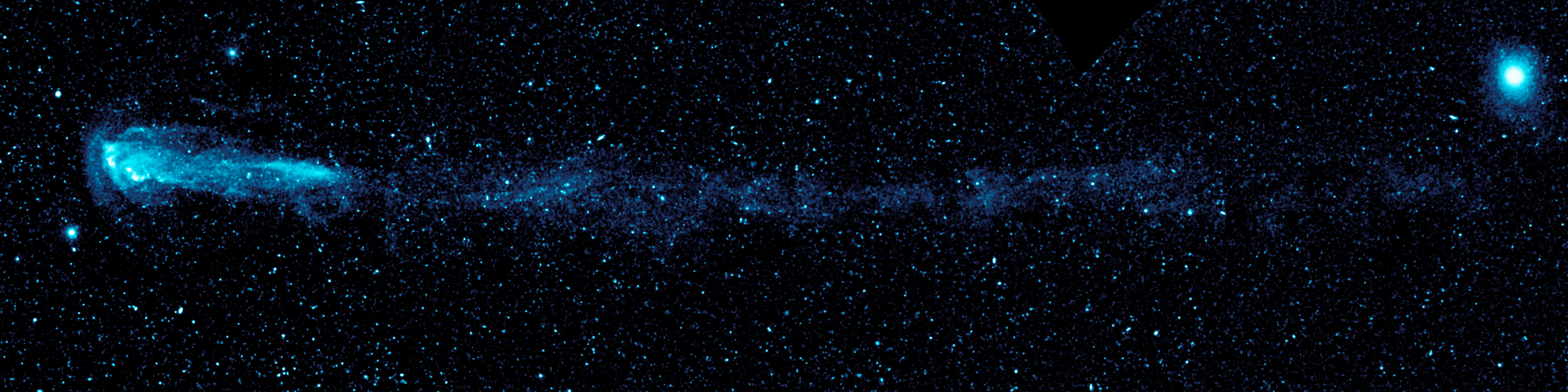 Ultraviolet image of the star Mira showing its comet-like trail of gas over 13 light-years long. Converted to JPG from the original TIFF Image.